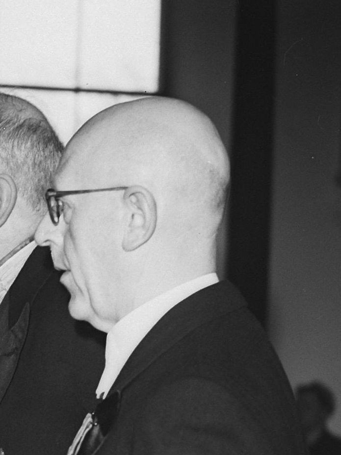 Sikke Smeding. Honorary doctorate Landbouwhogeschool Wageningen, 1948